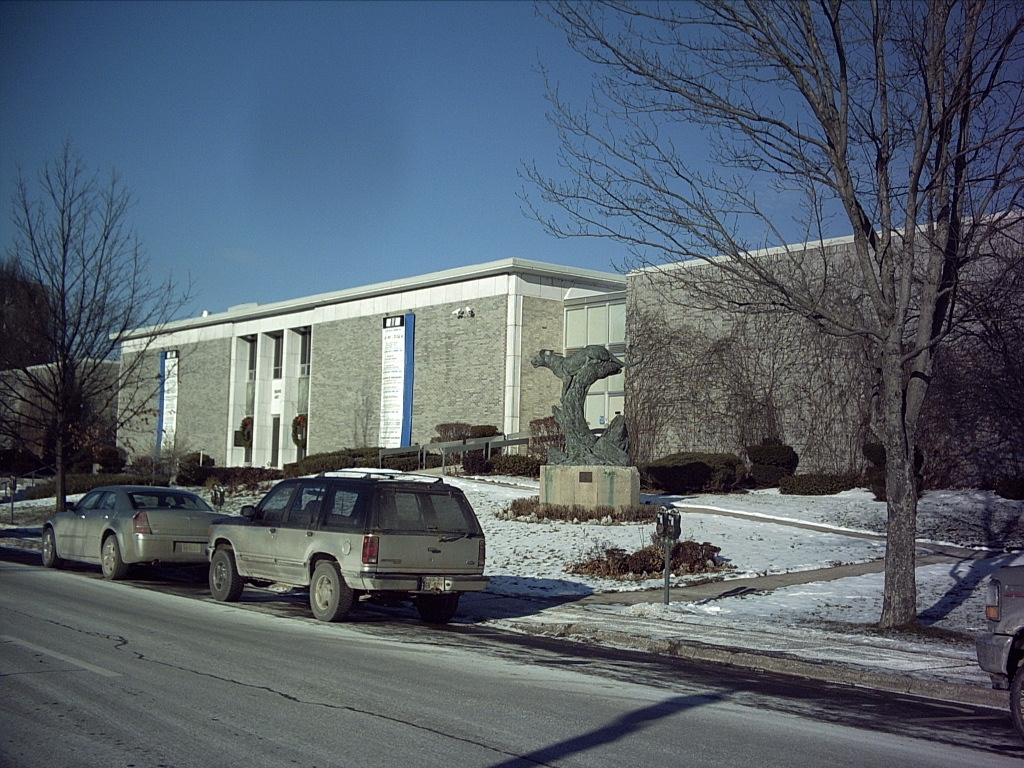 Beaverbrook art gallery. Took it myself. Today.